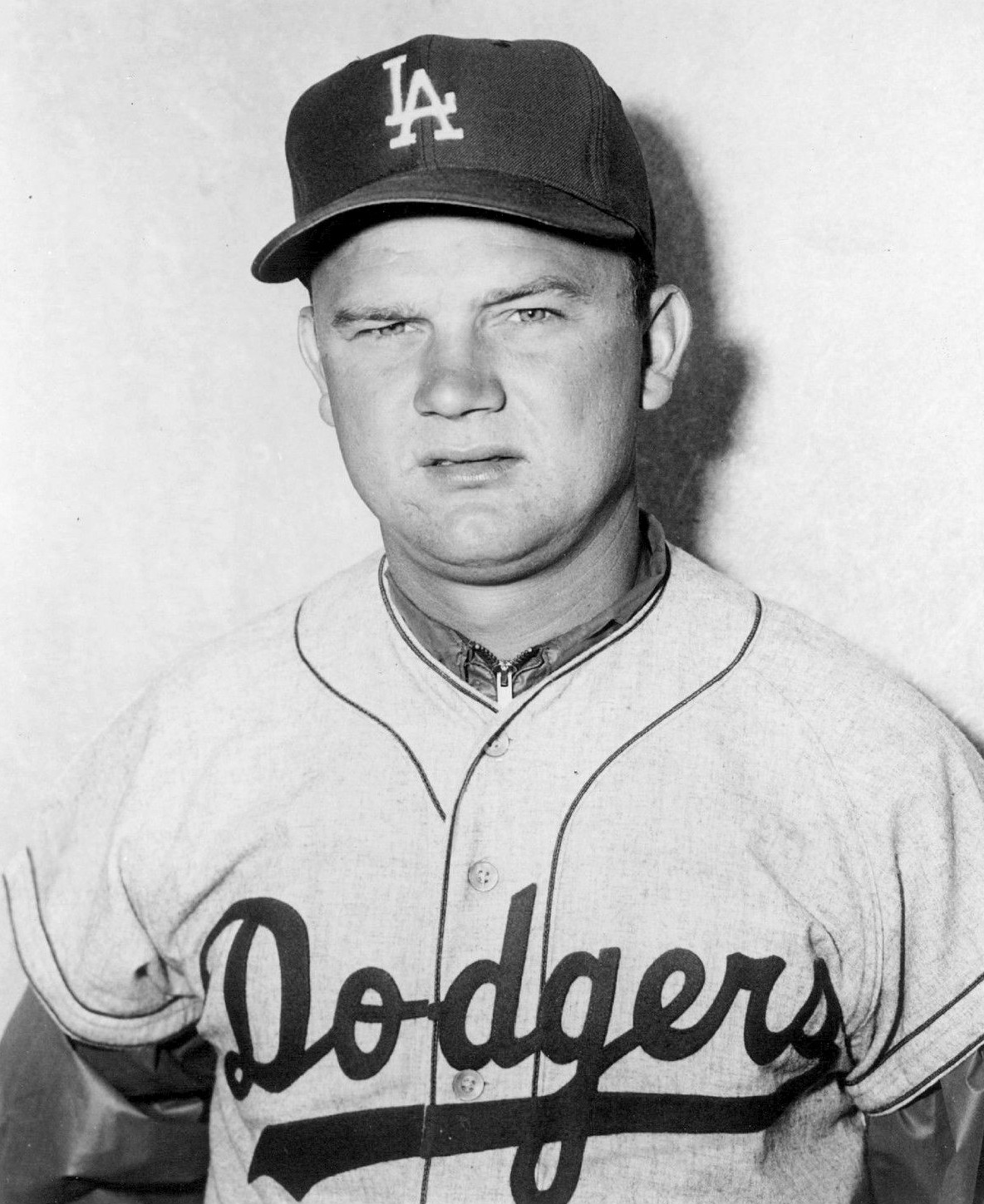 Photo of Don Zimmer as a member of the Los Angeles Dodgers.